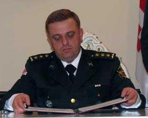 General Wald and Georgian Chief of Defense Colonel Levan Nikoleishvili sign the Sustainment and Stability Operations Program (SSOP) agreement.